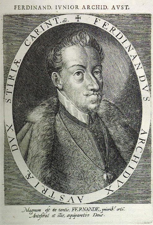 Ferdinand II., Holy Roman Emperor